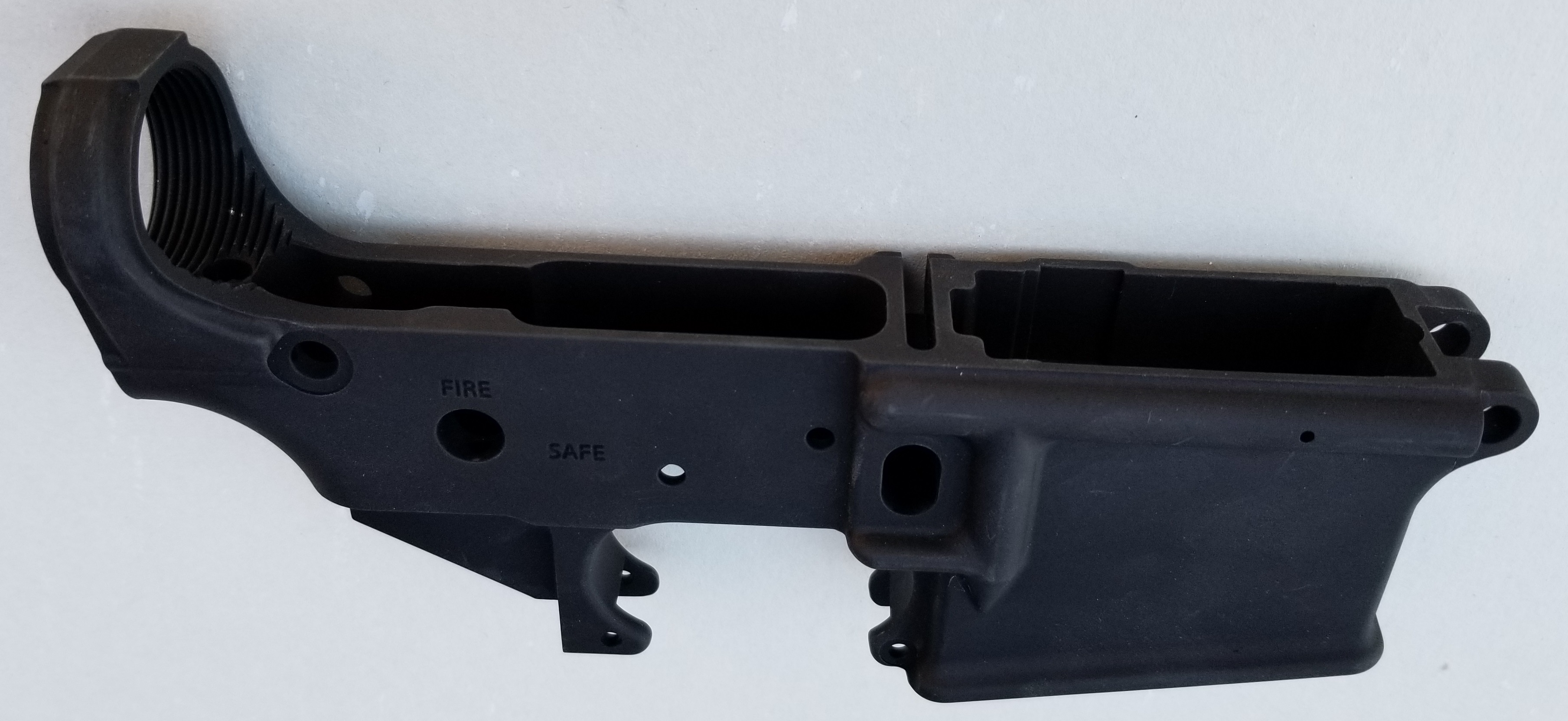 In the United States, this is the piece legally controlled as the firearm. The serial number is on the opposite side. In application, it is normally completed with several additional parts including an interchangeable fire control group with a trigger, hammer, and disconnect.